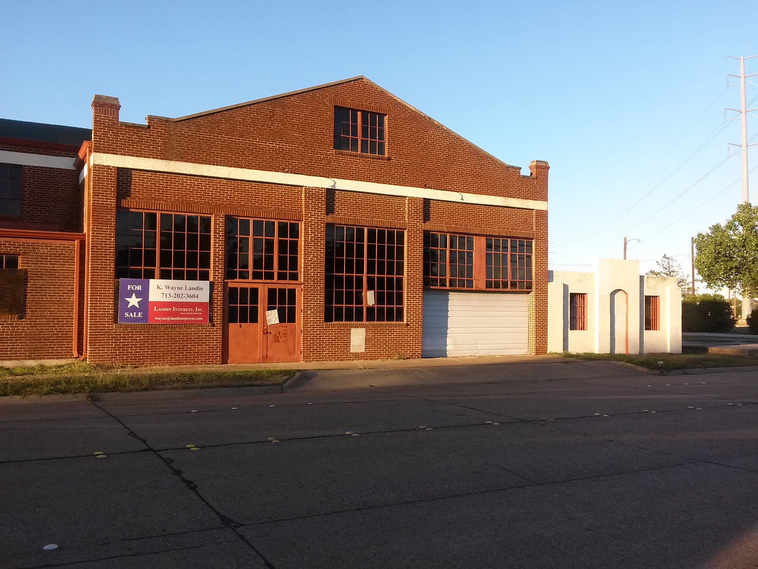 old Garland generator